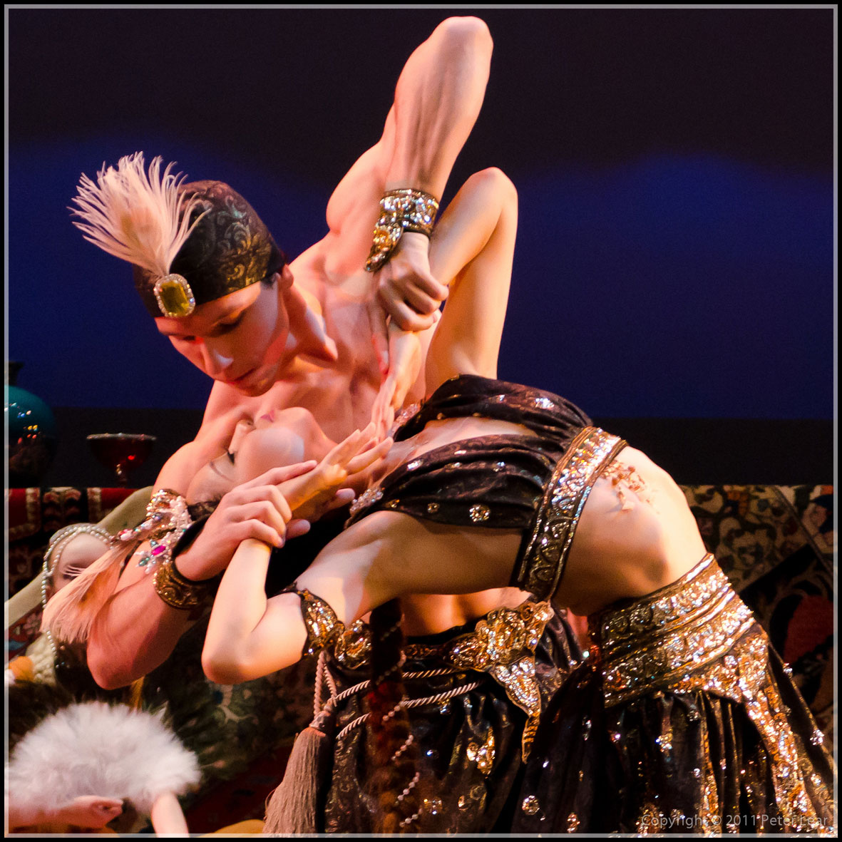 Vis and Ramin, Cchoreography of Nima Kiann